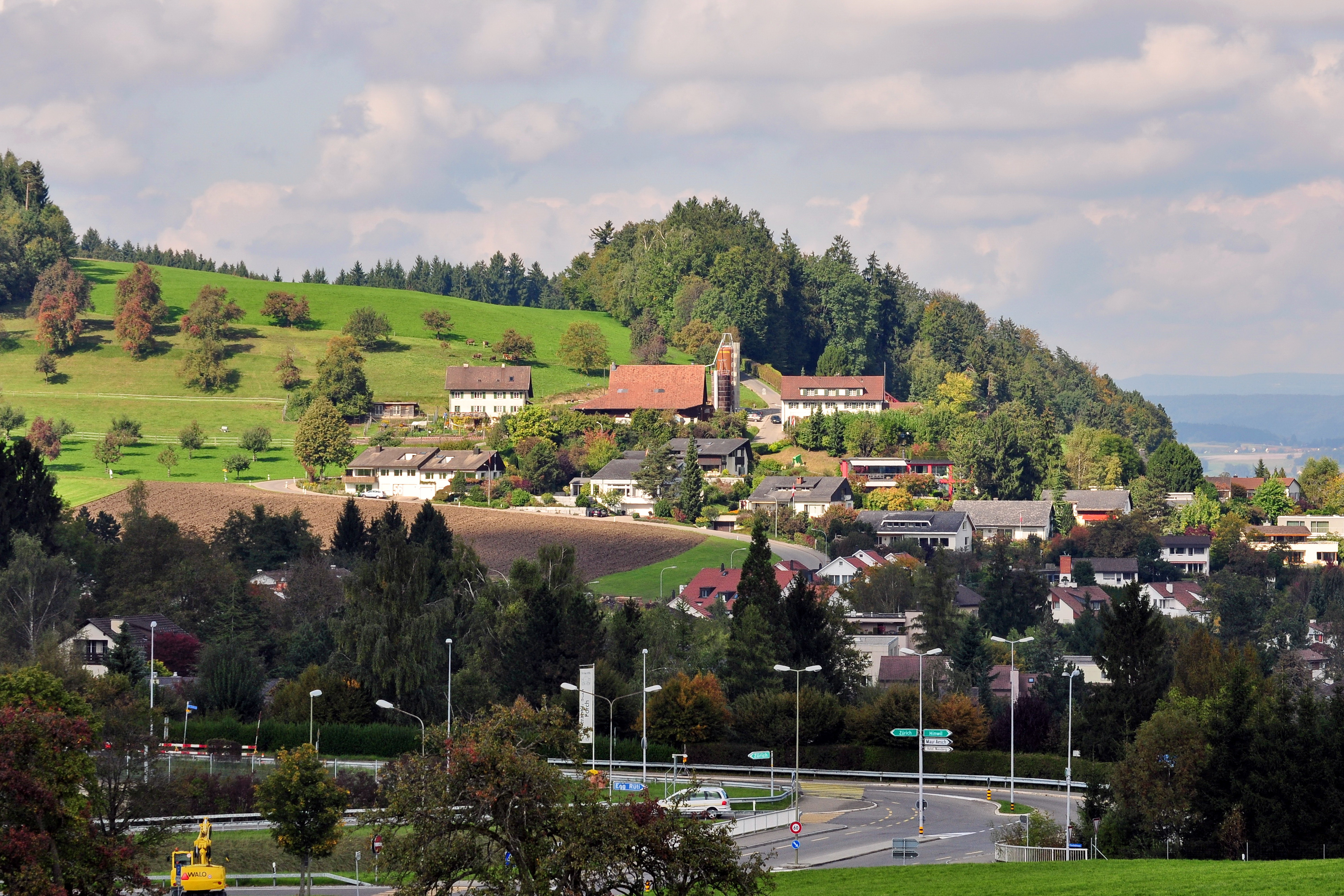 Forch (Switzerland) as seen from towards Guldenen on Pfannenstiel